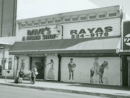 Self made Photo of Cornice above the Montgomery Building of El Paso. All rights released.